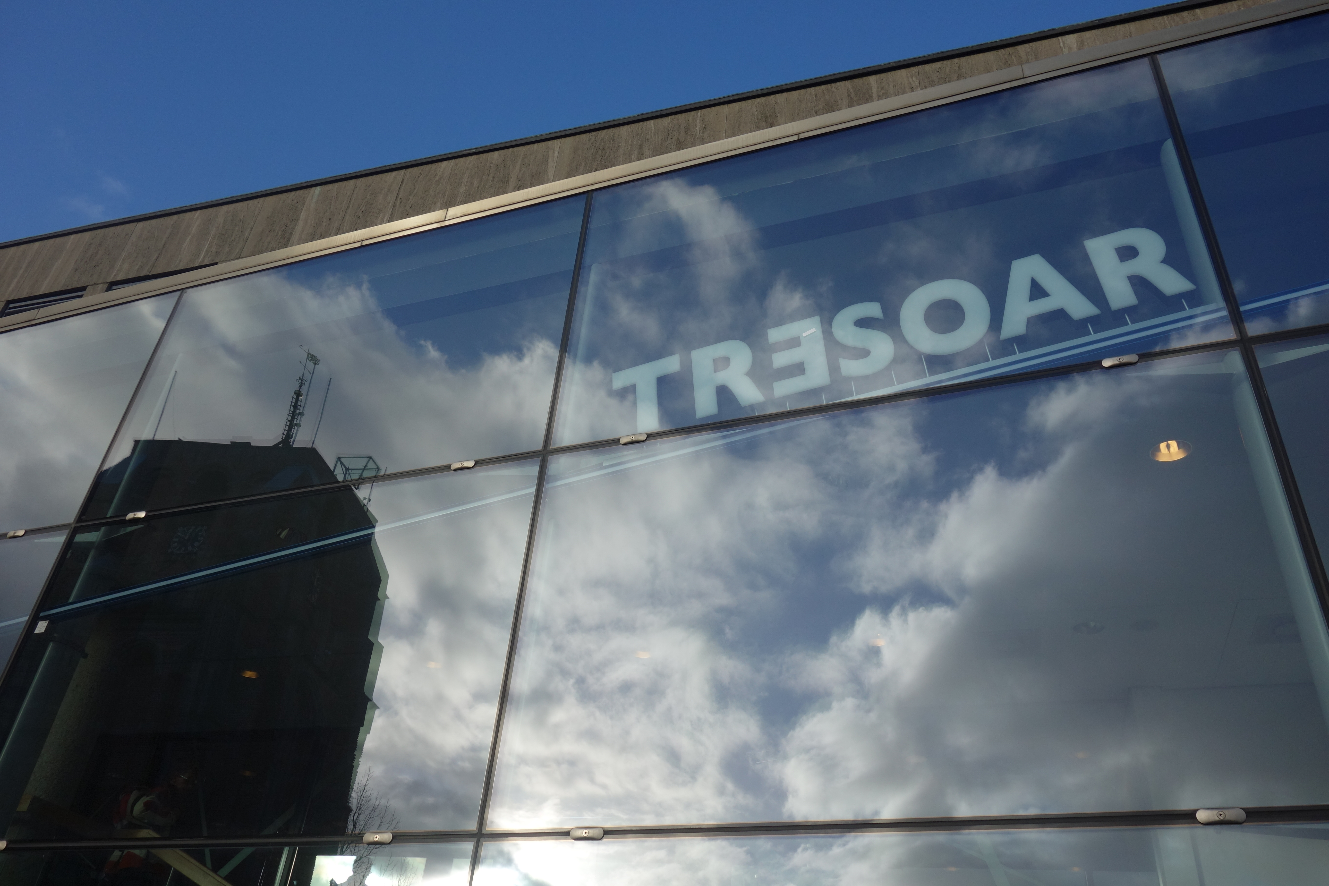 Tresoar building in Leeuwarden, 2018